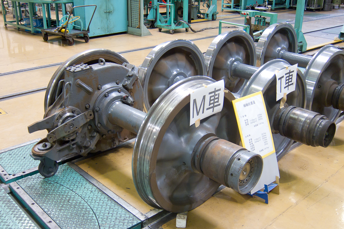 Cardan-drive gearbox for Seibu Railway's EMU.